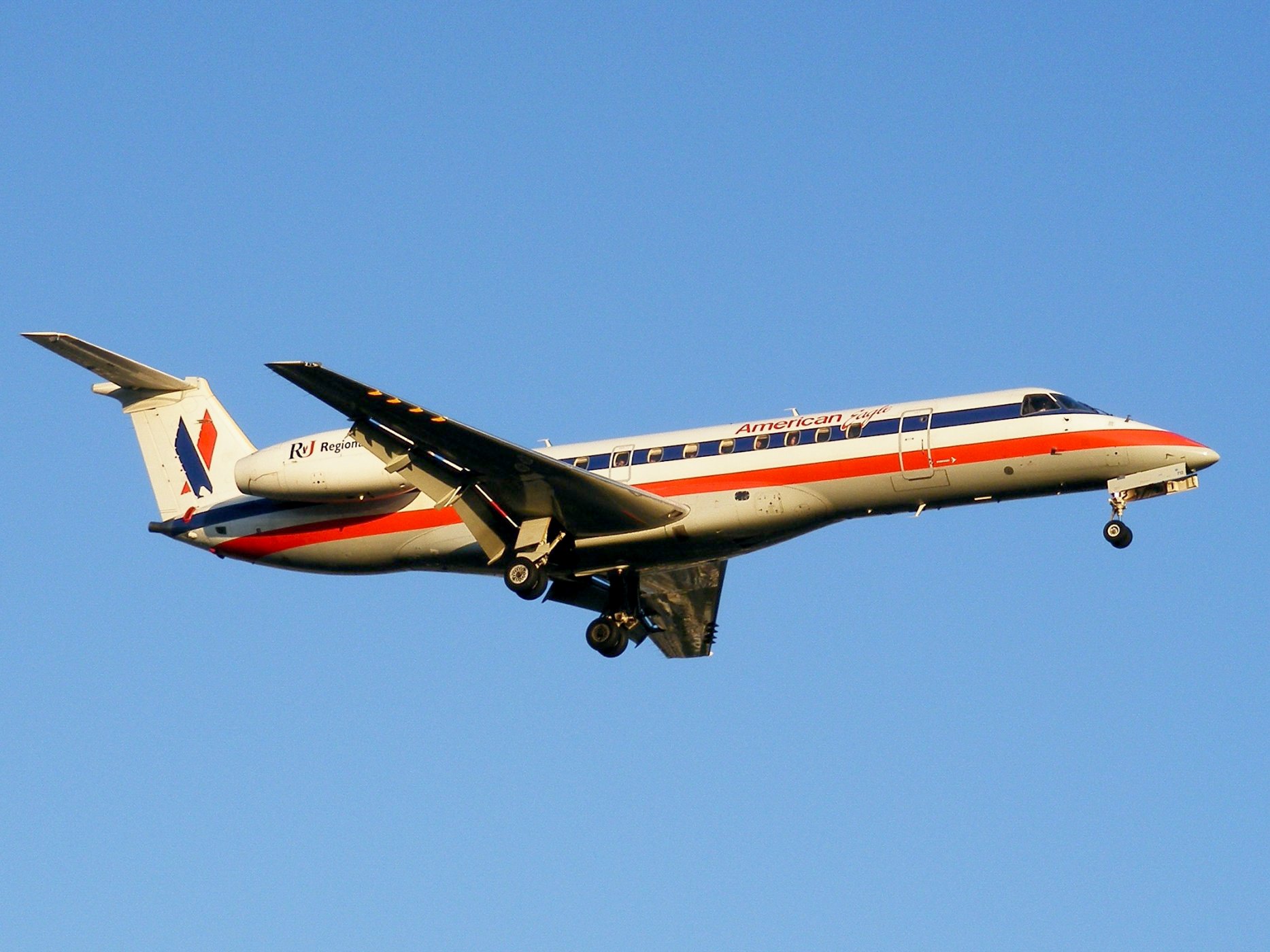 American Eagle Embraer ERJ 145 landing at Montréal-Pierre Elliott Trudeau International Airport (YUL) in September 2008.